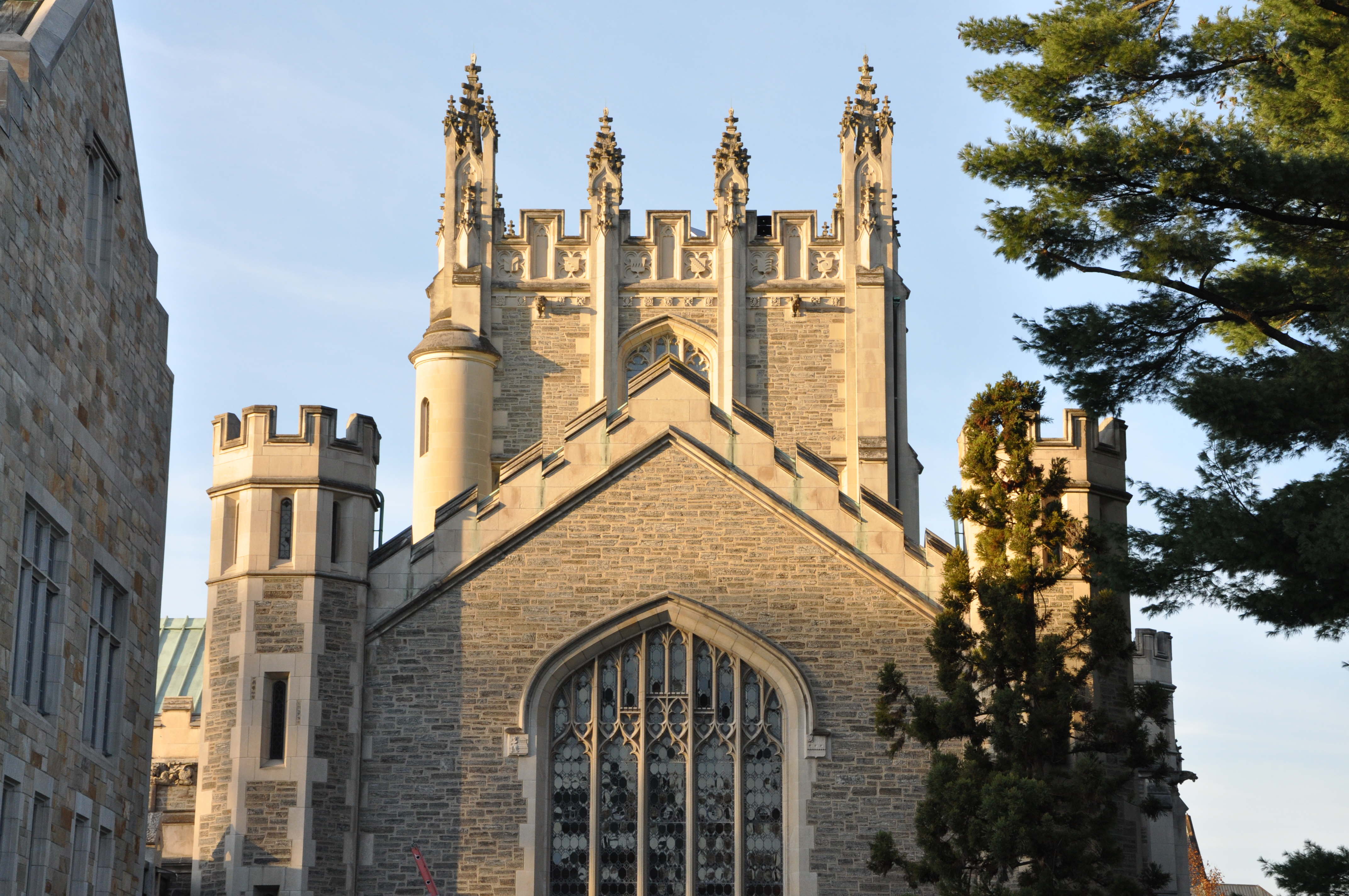 South view of Vassar's Thompson Memorial Library tower